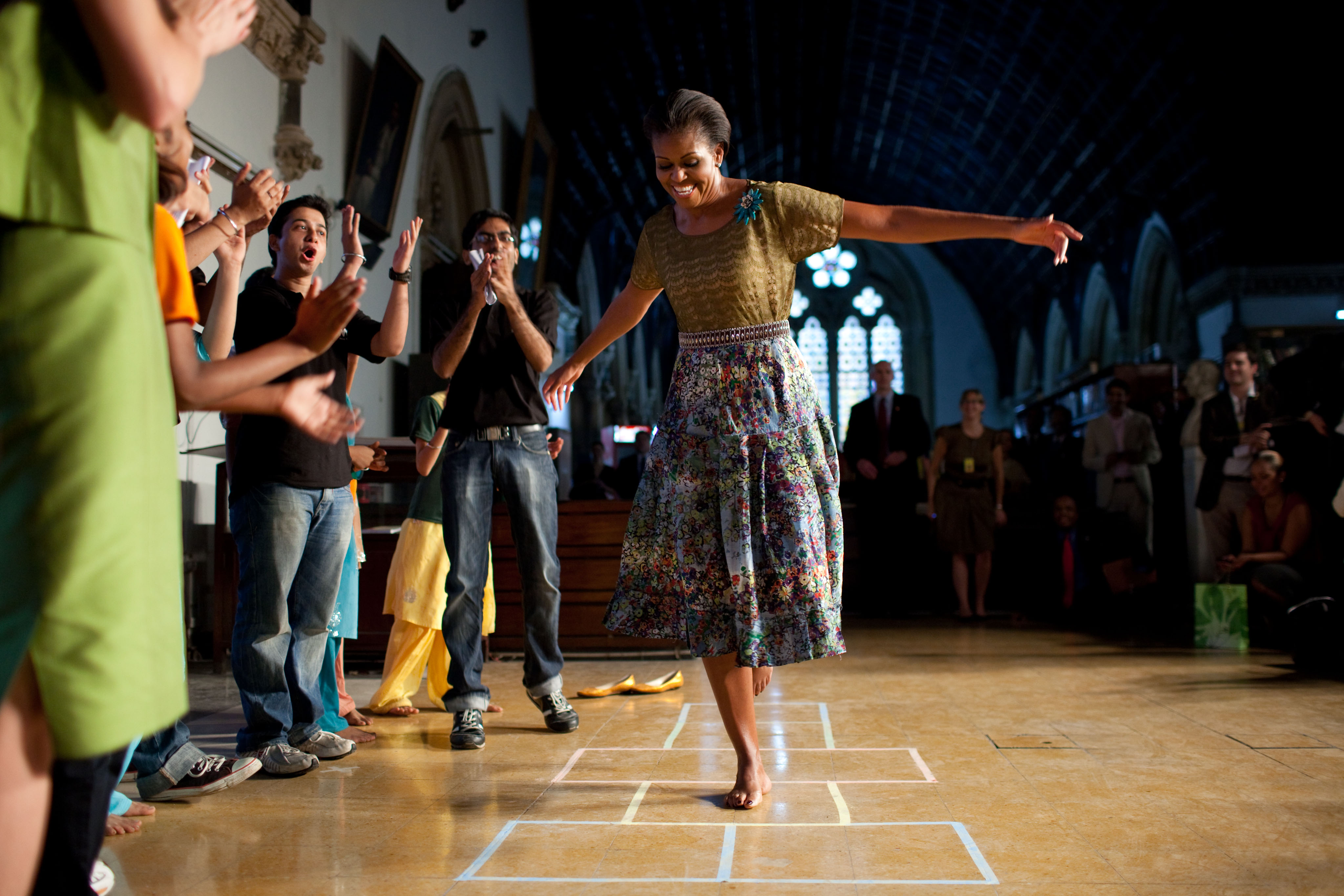 First Lady Michelle Obama plays hopscotch during the “Make A Difference” program at the University of Mumbai in Mumbai, India, Nov. 6, 2010. (Official White House Photo by Chuck Kennedy)